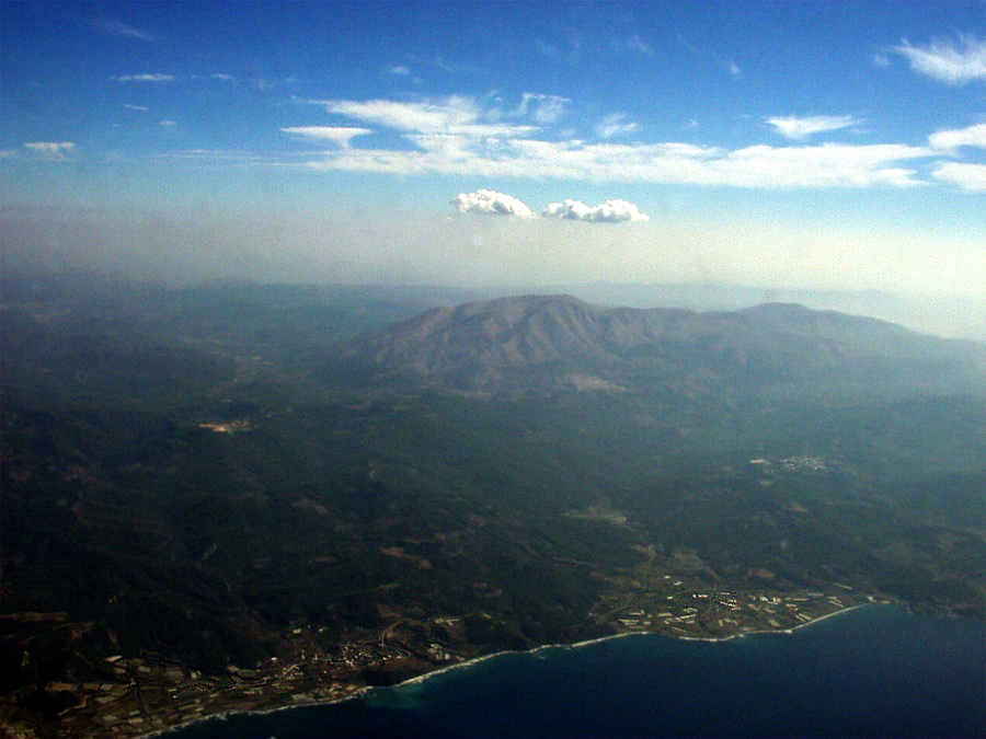 Aerial view of Rhodes island, western side, Attavyros mountain and municipal unit. The coastal settlemenst pictured are Mandriko (left, belonging to Emponas) and Kameiros Skala (right, belonging to Kritinia)